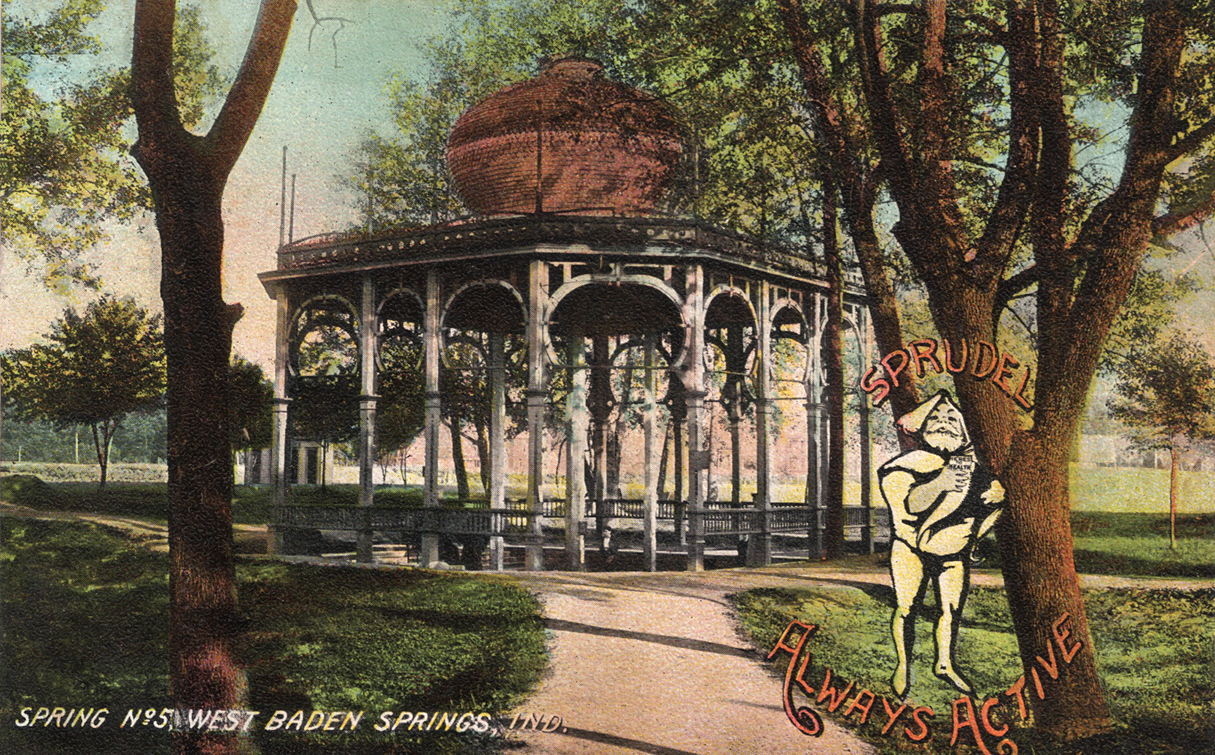 Postcard reads "Spring No. 5, West Baden Springs, Ind." and "Sprudel - Always Active". The gnome holds a sign that reads "Here's to Health". The term "Sprudel" refers to the hot springs of the famous spa of Karlovy Vary in the Czech Republic. The back side is divided. It bears a greencentennial one-cent stamp of Benjamin Franklin (1706-1790) and a postmark of 3 September 1906. It was mailed from French Lick, Indiana, to "Princton", Indiana. The back side also reads "Made in Germany. Baker-Meyer & Co., Importers & Publishers, West Baden, Ind.". At the West Baden Springs Hotel, in West Baden Springs, Indiana.